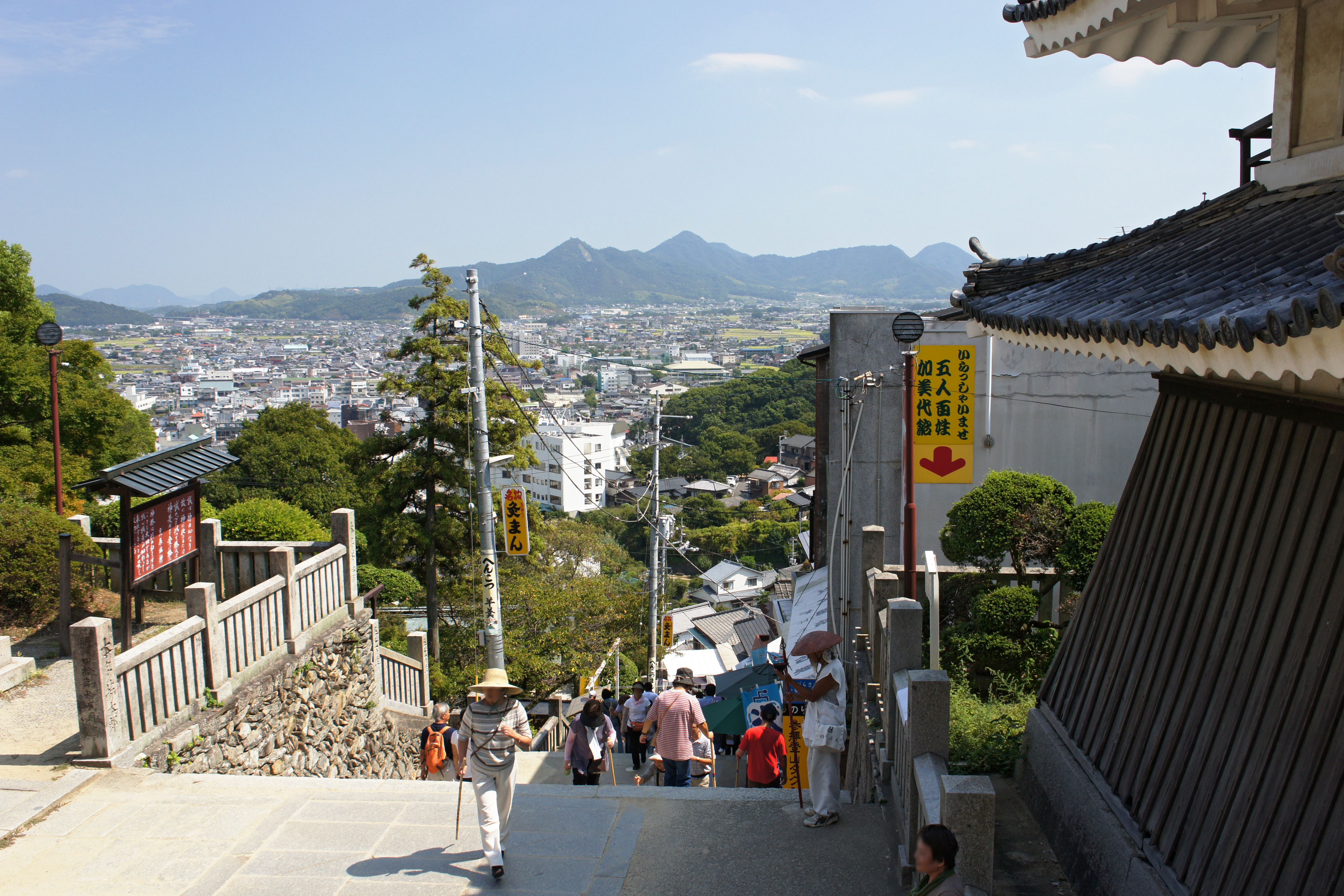 Omotesando of Kotohira Gu in Kotohira, Kagawa prefecture, Japan.